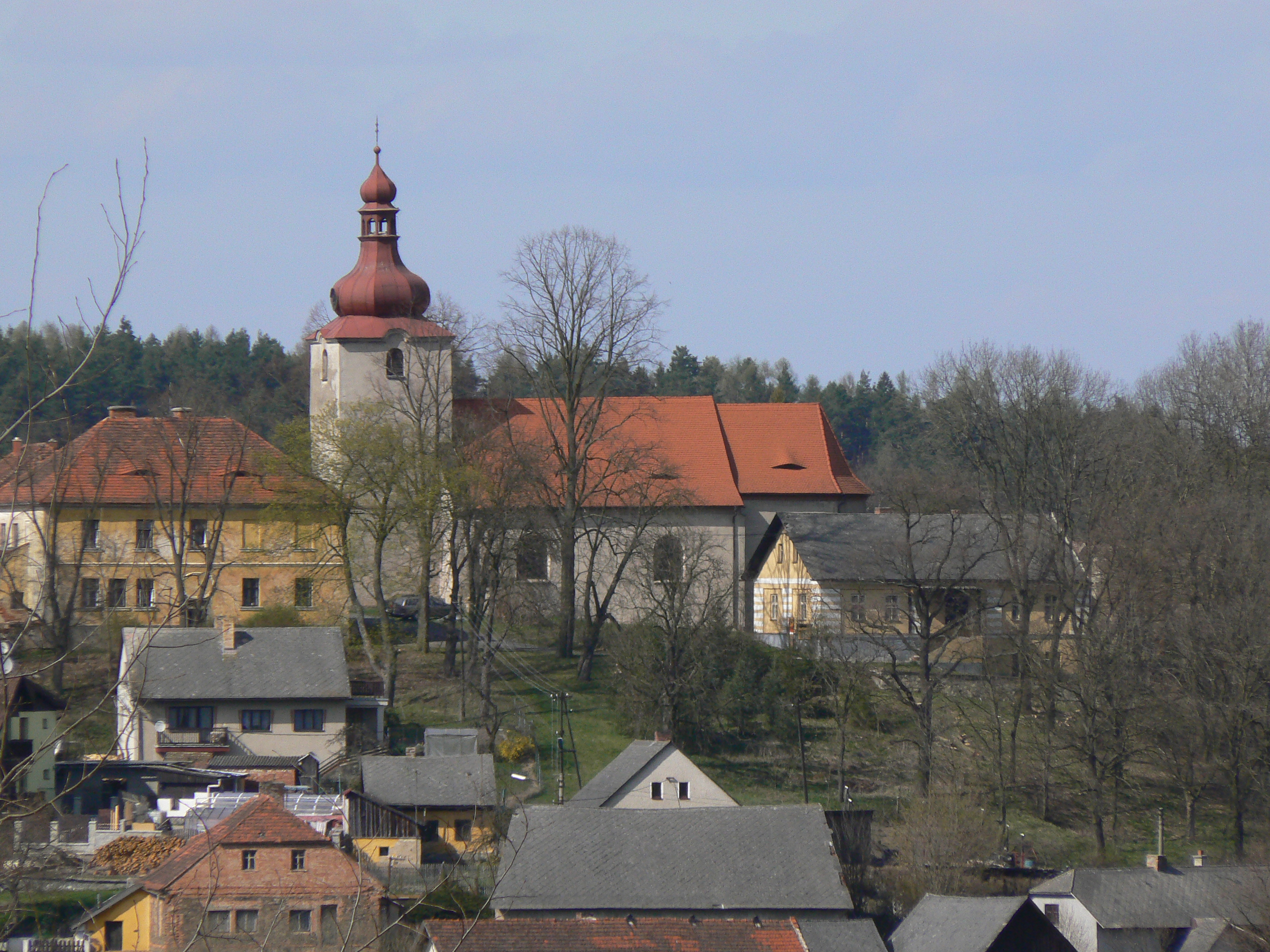 The Curch of All the Saints in Poleň, Czech Republic